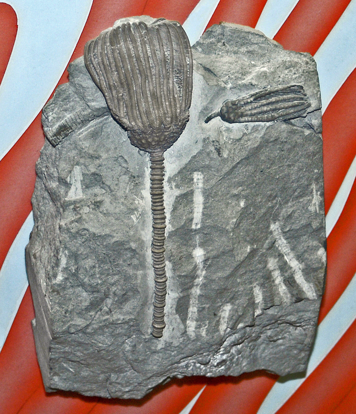 Fossil of Dizygocrinus from Carboniferous of Indiana (U.S.A.), on display at the Museo Civico di Storia Naturale di Milano